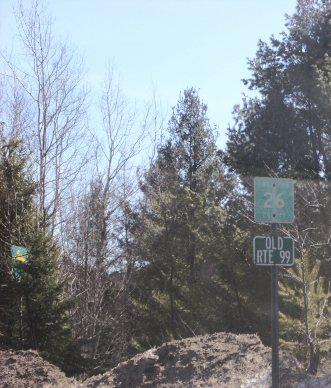 First reassurance marker on Franklin County Route 26 eastbound in Duane. As the sign below it indicates, CR 26 was also once New York State Route 99.